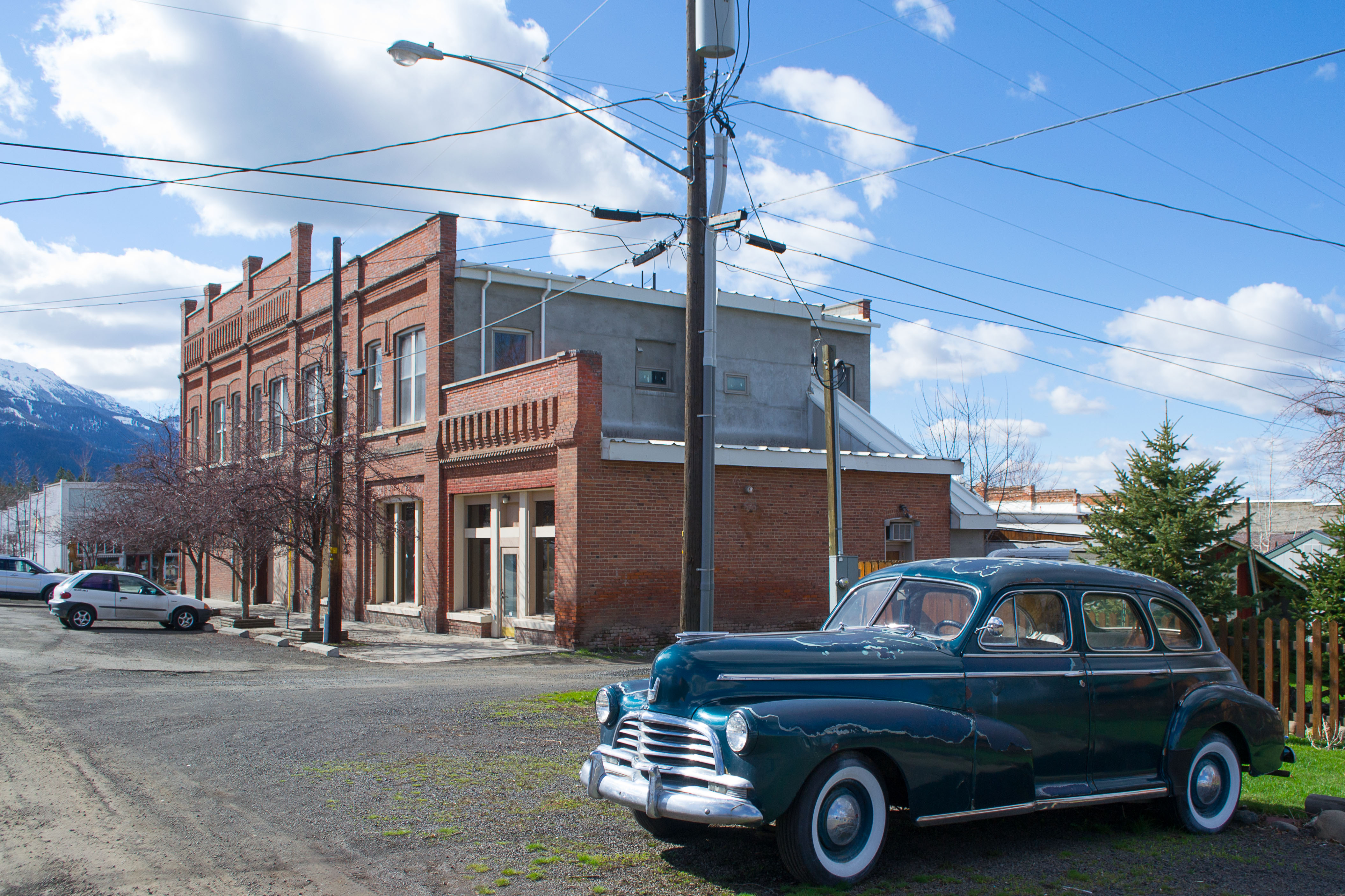 East First Street in Joseph, Oregon